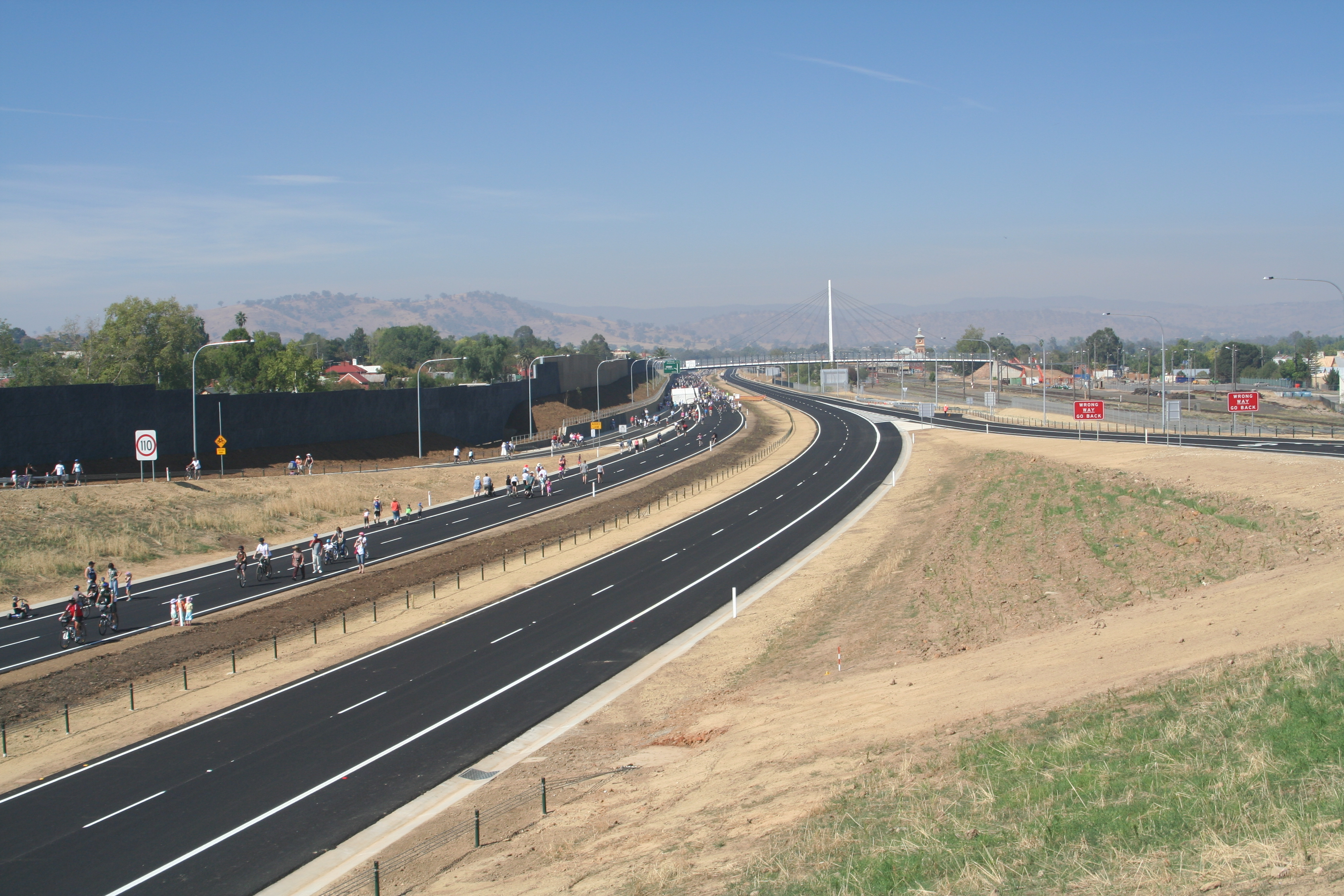 Hume Highway by-passing open day in Albury.